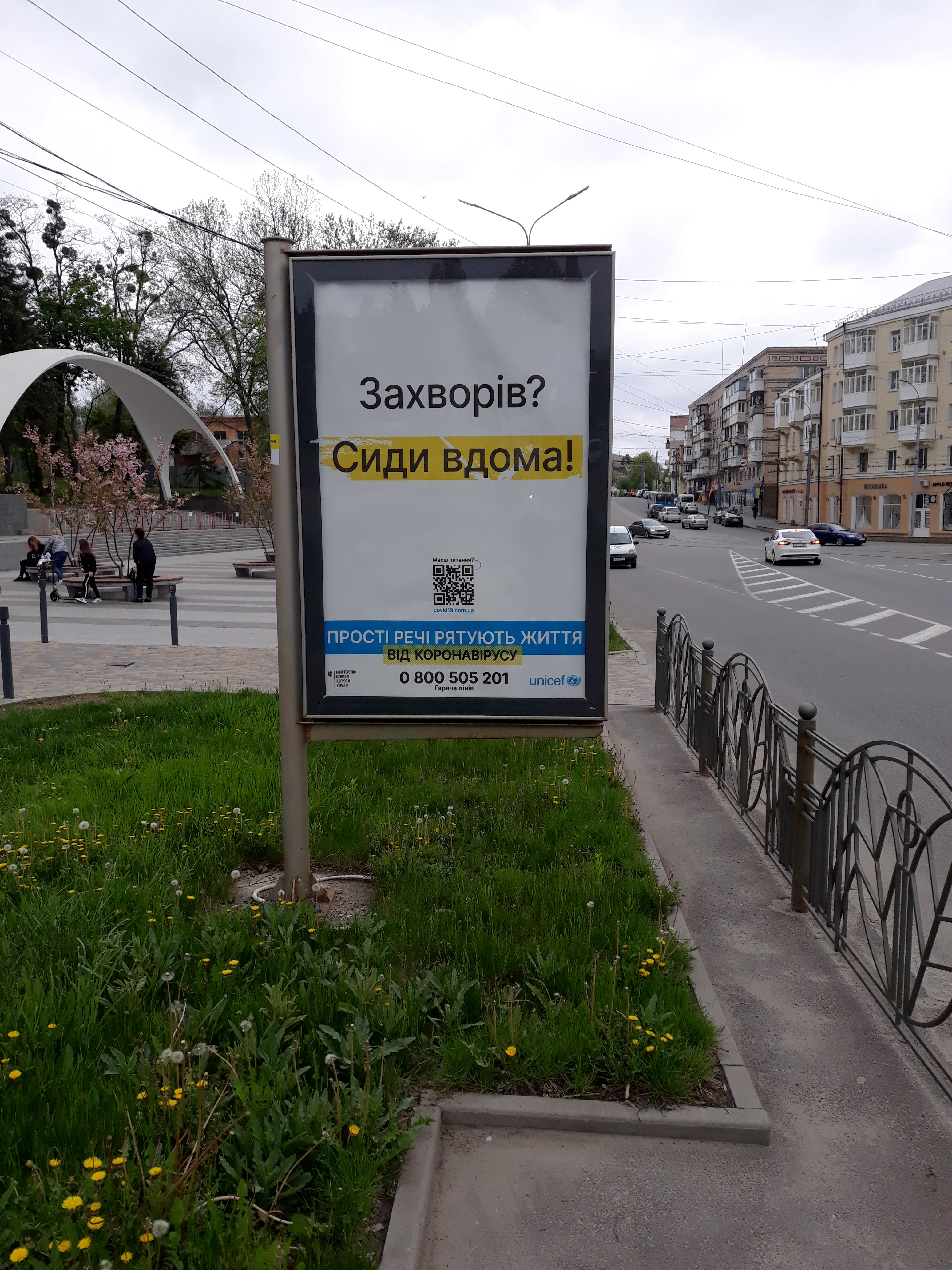 COVID-19 Billboard in Vinnytsia (Ukraine)